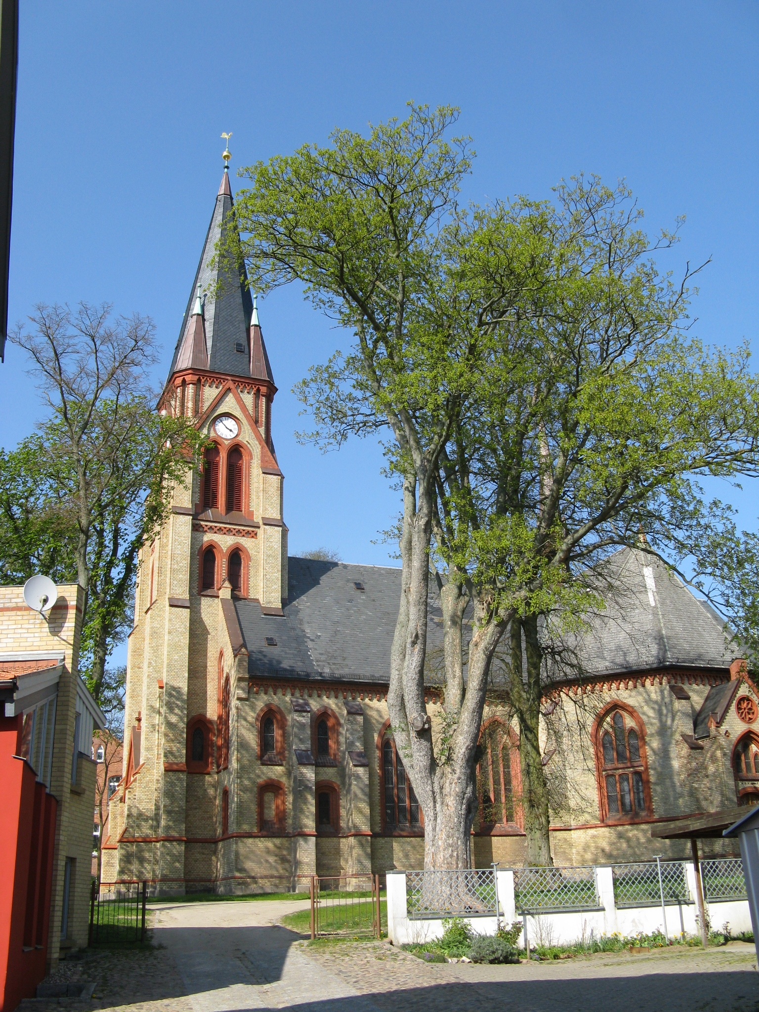 Church in Warin, disctrict Nordwestmecklenburg, Mecklenburg-Vorpommern, Germany